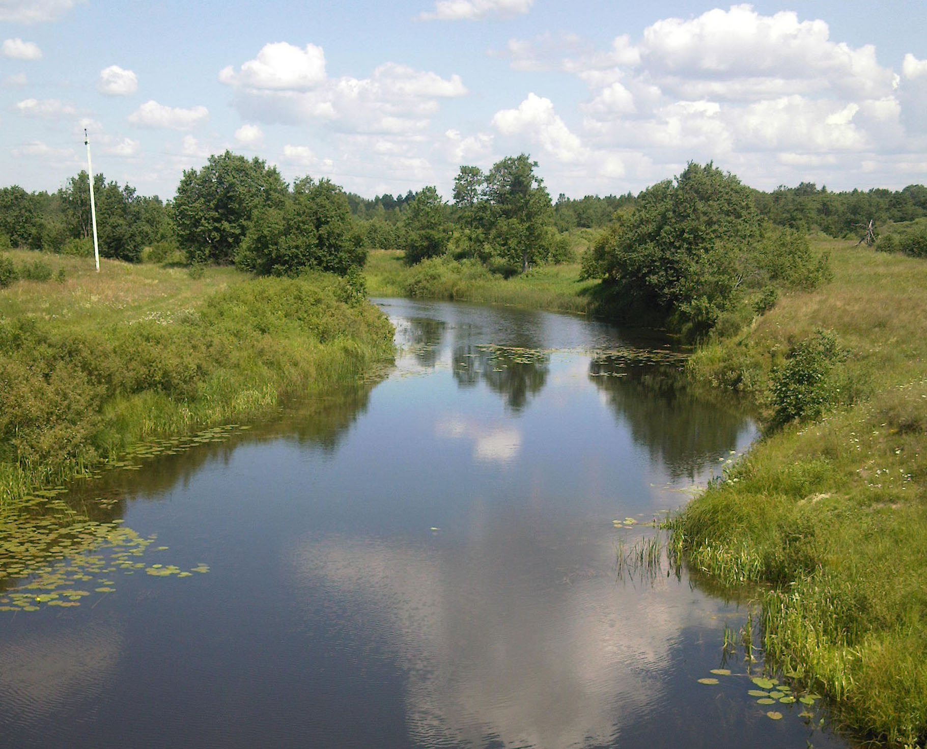 Vorozhba river, Tverskaya oblast, Russia